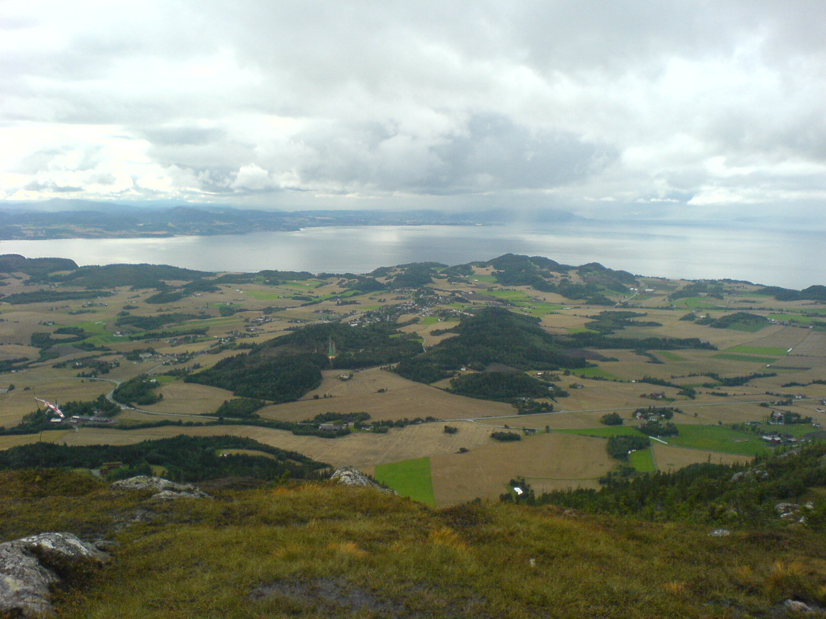 A overview picture of Skatval in Norway, taken from the top of Forbordsfjellet.